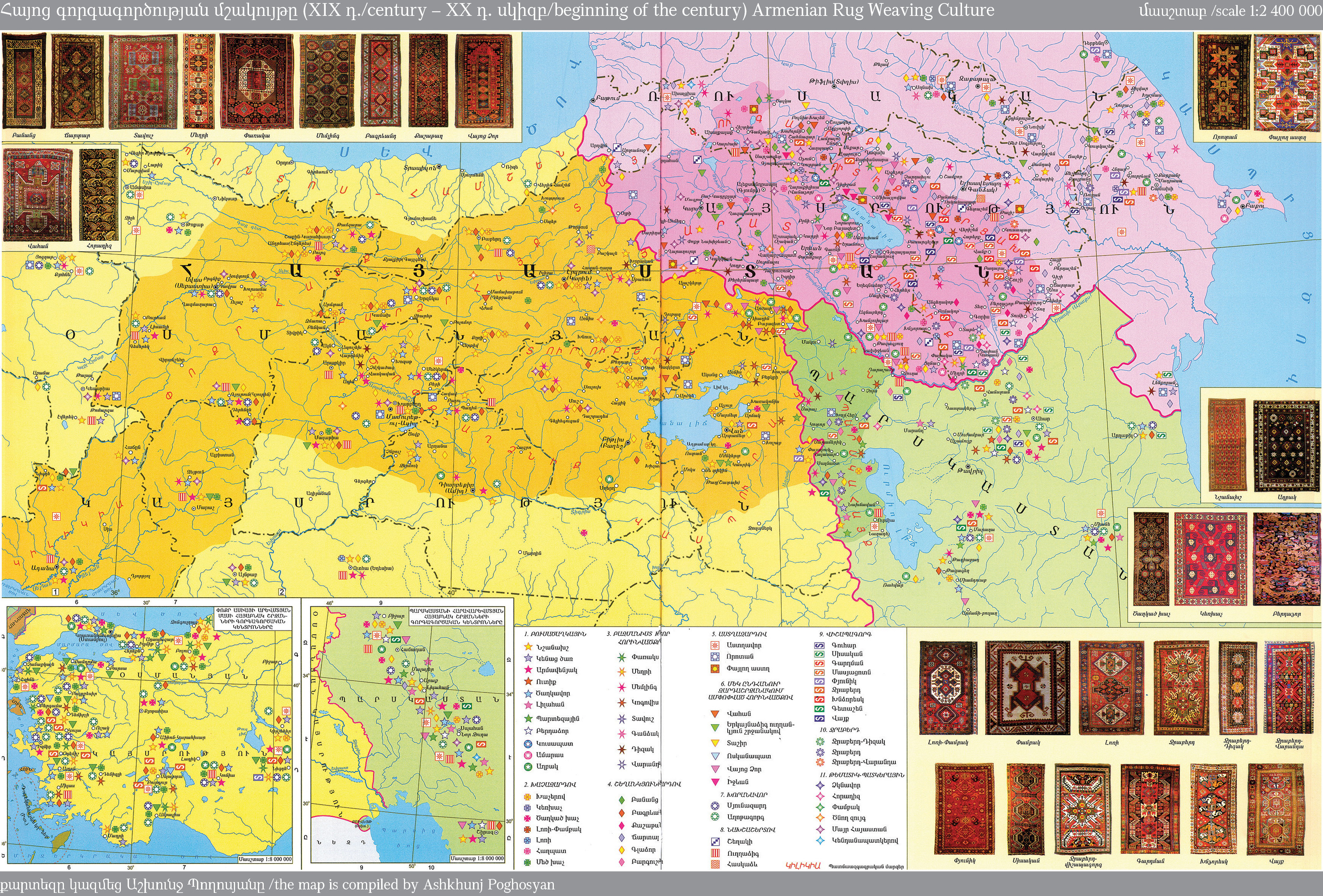 Map of Armenian Rug Weaving Culture by Ashkhunj Poghosyan